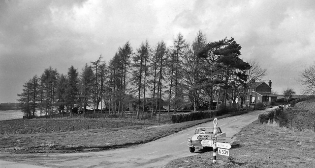 Site of Bentworth & Lasham Station. View NE from A339, to probable site/remains of station; Basingstoke left, Alton right. Basingstoke - Alton Light Railway, operational for only 25 - 30 years, closed to passengers 12/9/32, goods 1/6/36, but immortalised by 1937 film 'Oh, Mr Porter'. (My wife, who was driving, is studying the map, this Station site being especially difficult to find).